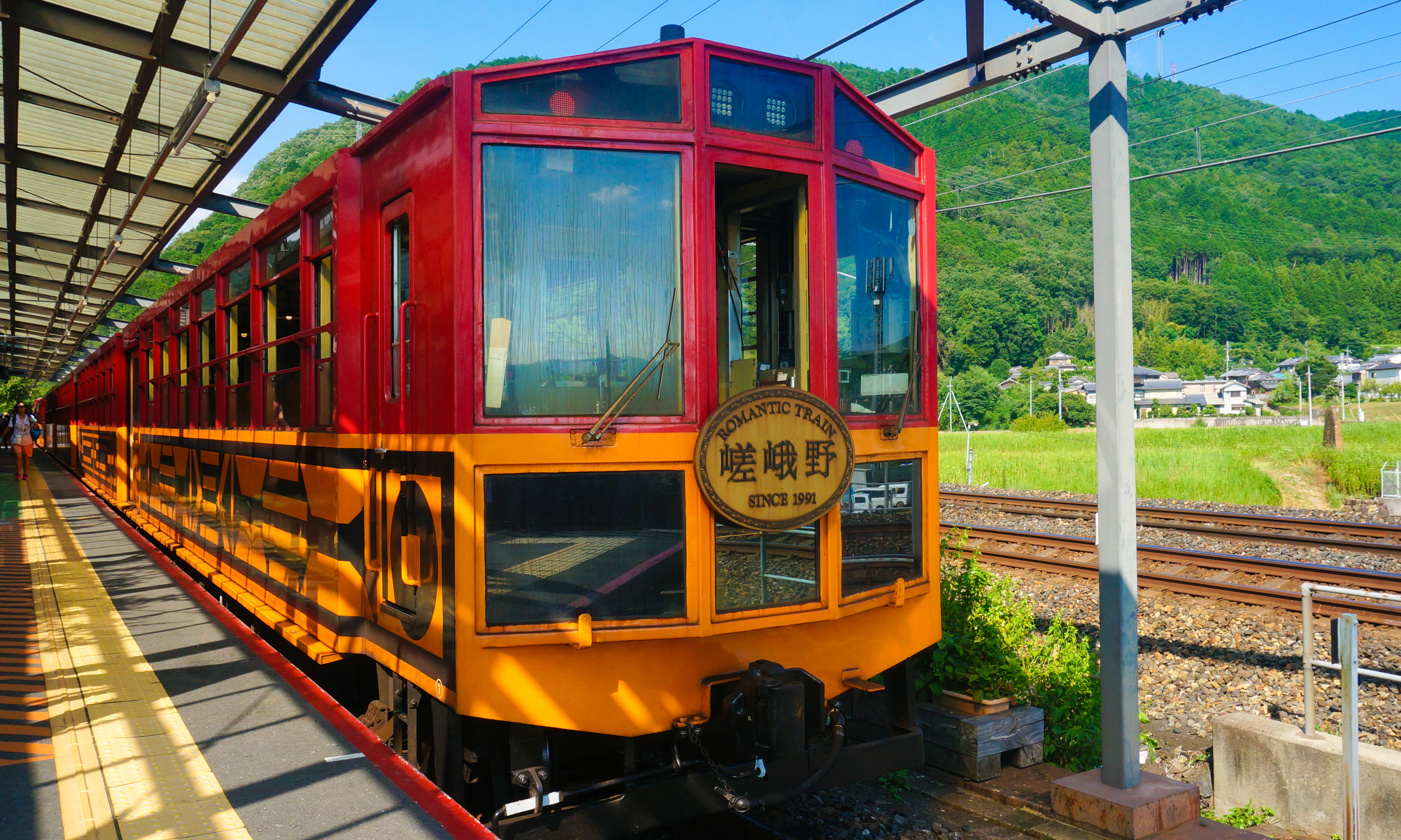 A Sagano Romantic Train stopping at Kameoka Station.